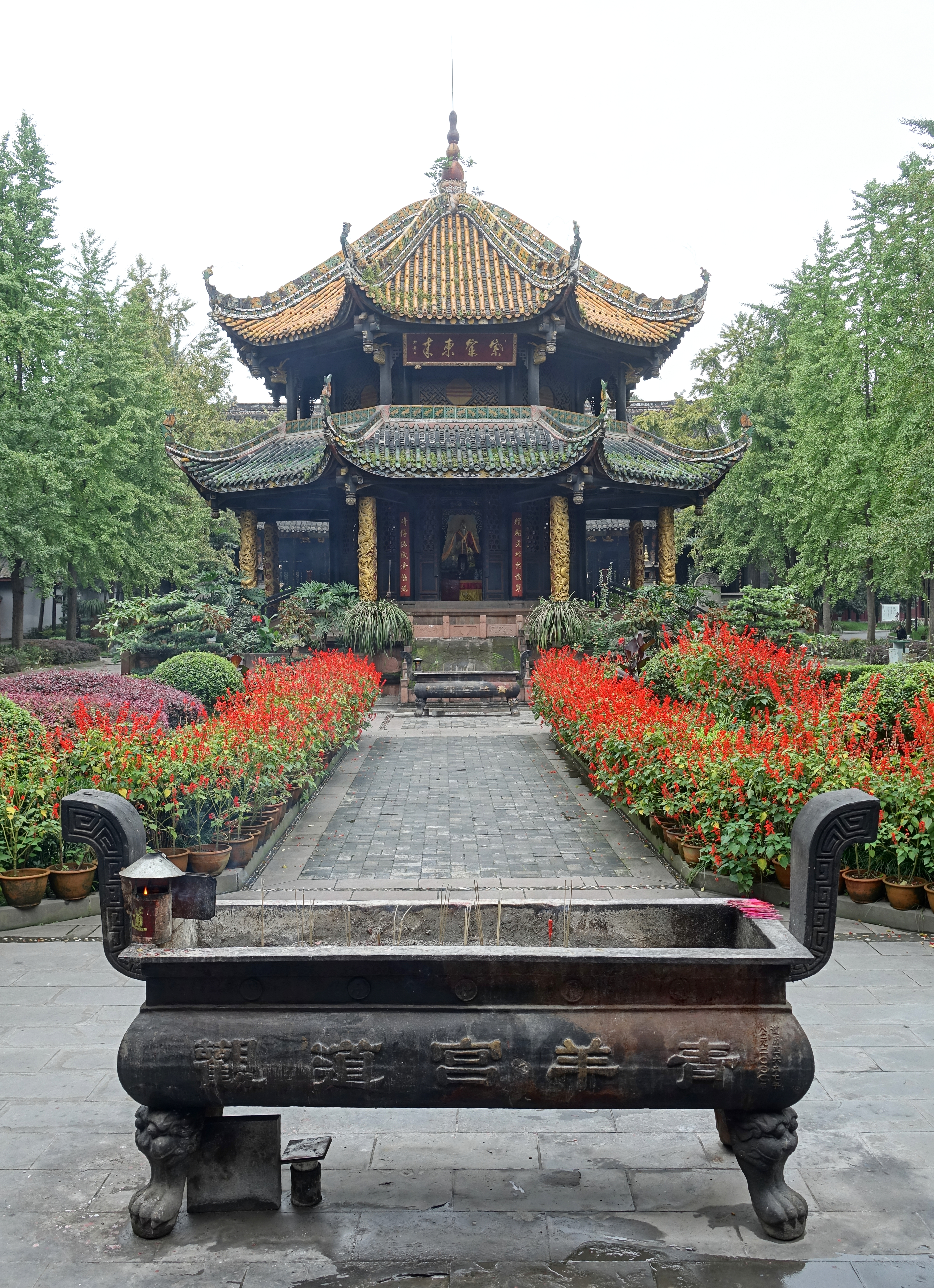 Eight Trigram Pavilion (八卦亭) in the Qingyang Gong (青羊宫) Taoist Temple - Chengdu, Sichuan, China.